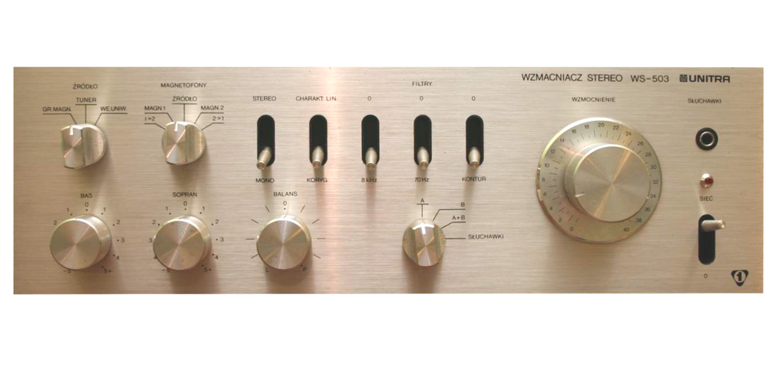 Audio amplifier